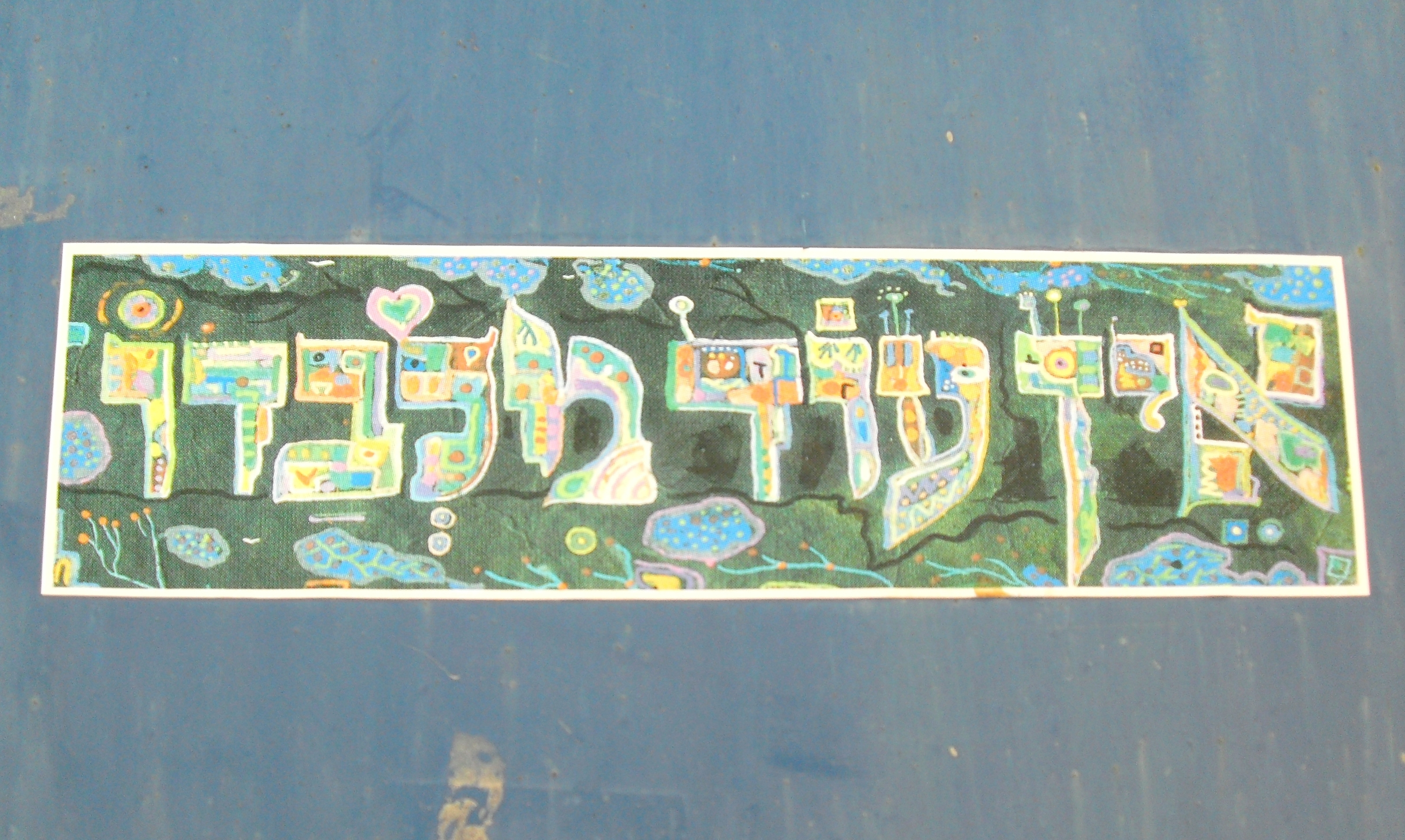 Israel Safed Hebrew inscription : אין עוד מלבדו (Ain od milvado) “there is none else besides Him.” after biblical verse Deuteronomy 4:35.